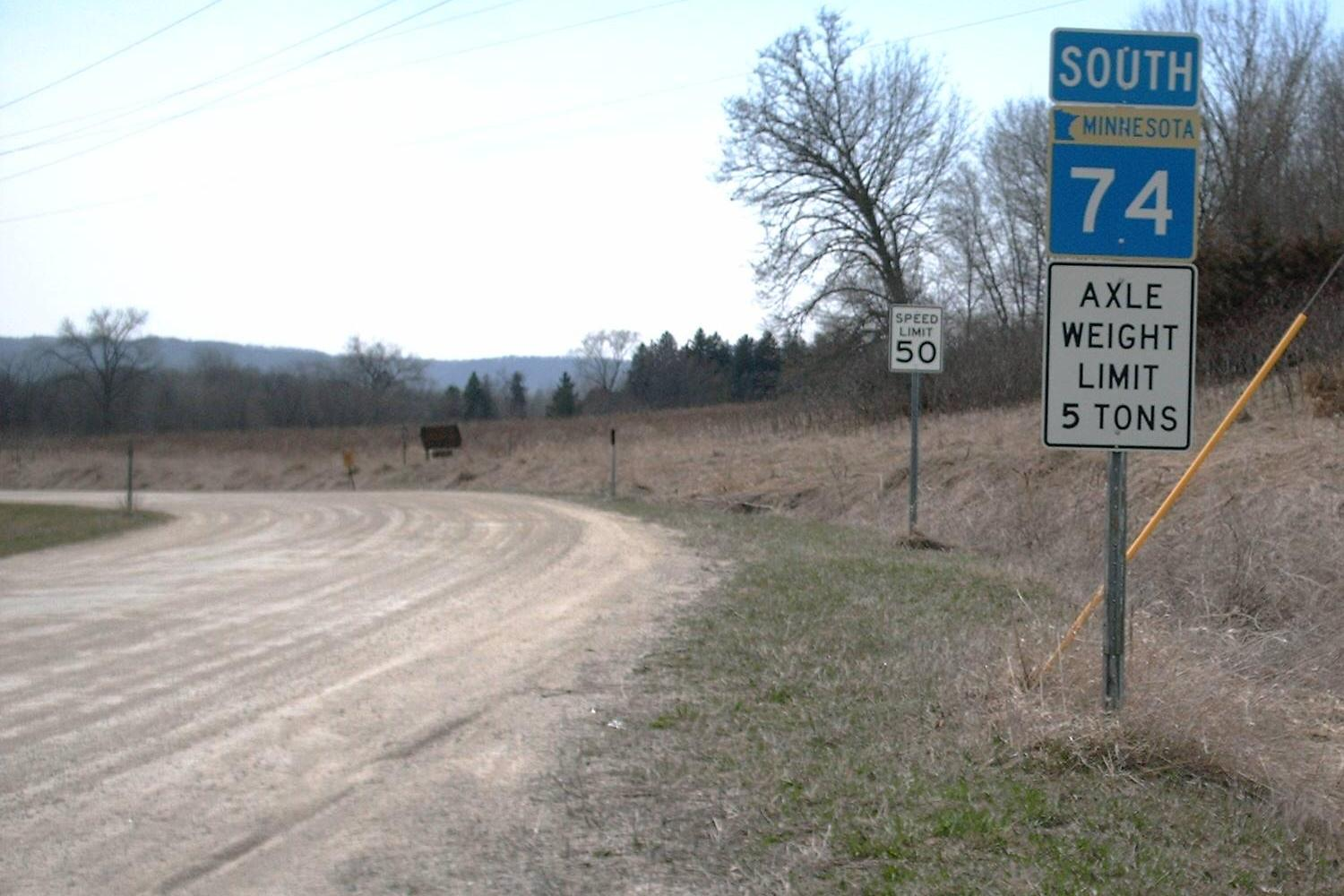 Minnesota State Highway 74 at the northern end of the unpaved portion, near Weaver, Minnesota, United States